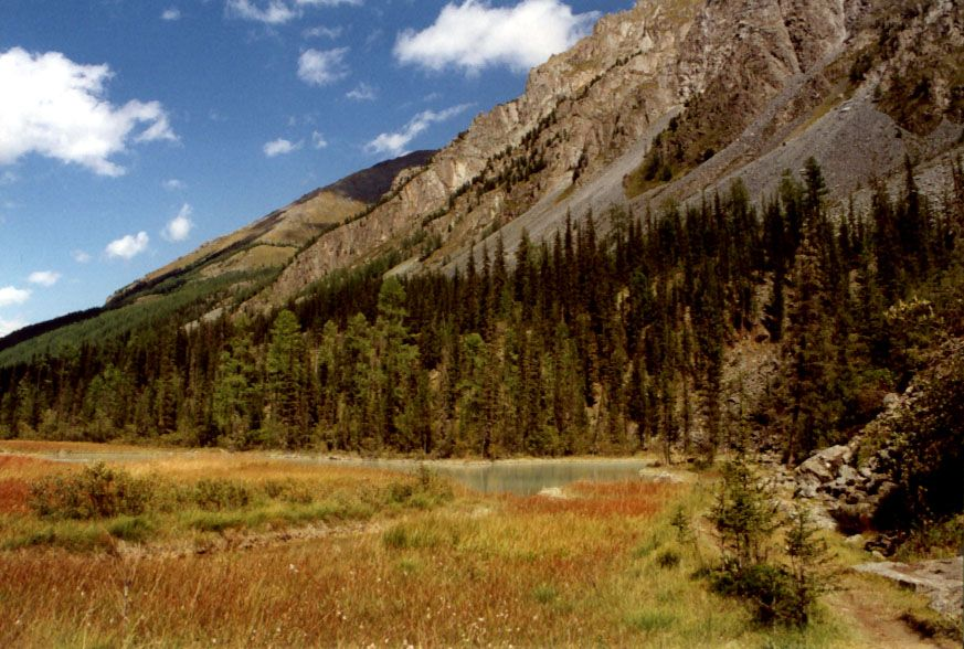 Altai, Valley Kutsherla in Altay Mountains, Russia